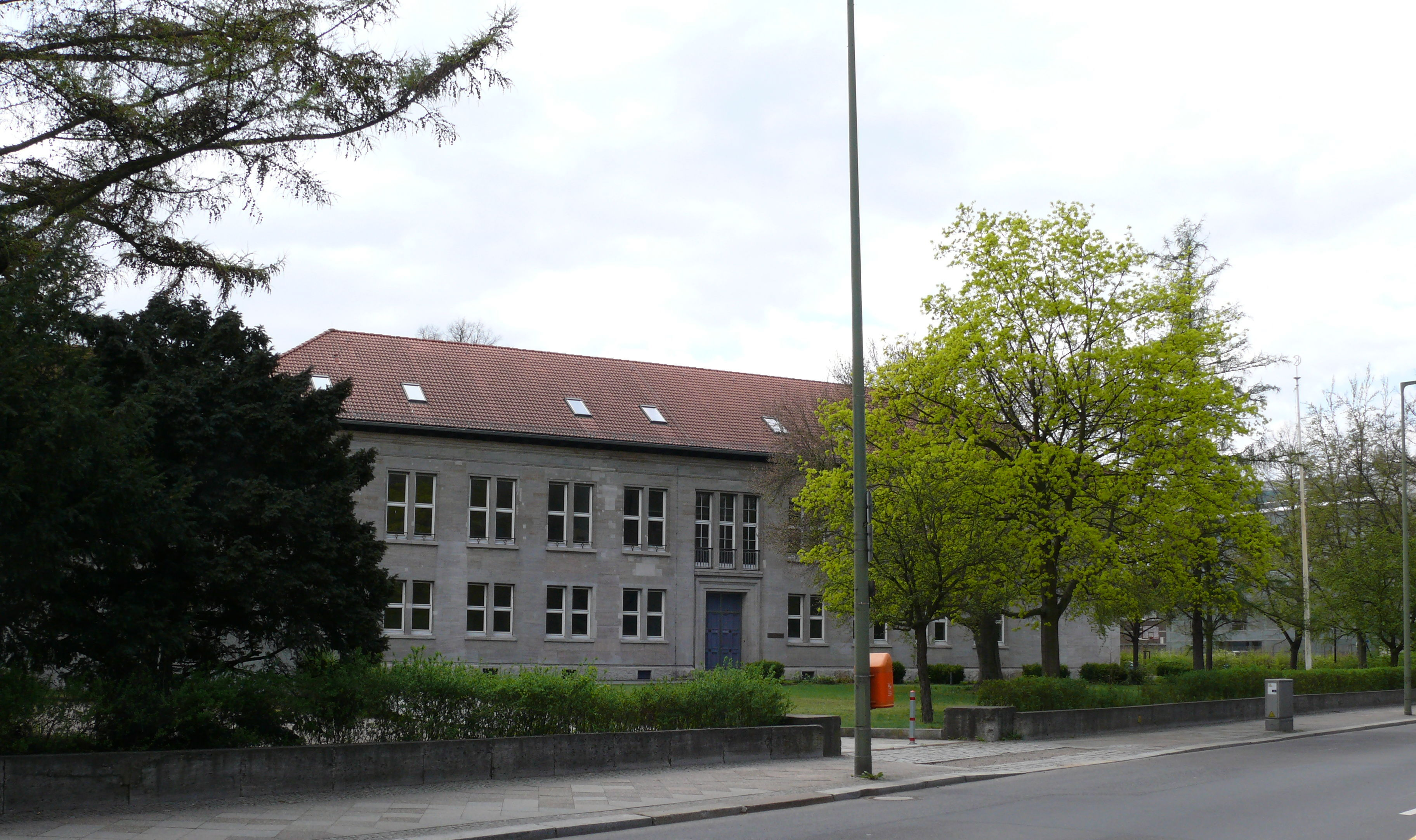 Berlin-Tiergarten Canisius Kolleg at Tiergartenstraße